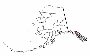 Adapted from Wikipedia's AK borough maps by Seth Ilys.